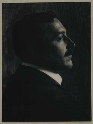 The german painter Julius Diez (1870-1957)